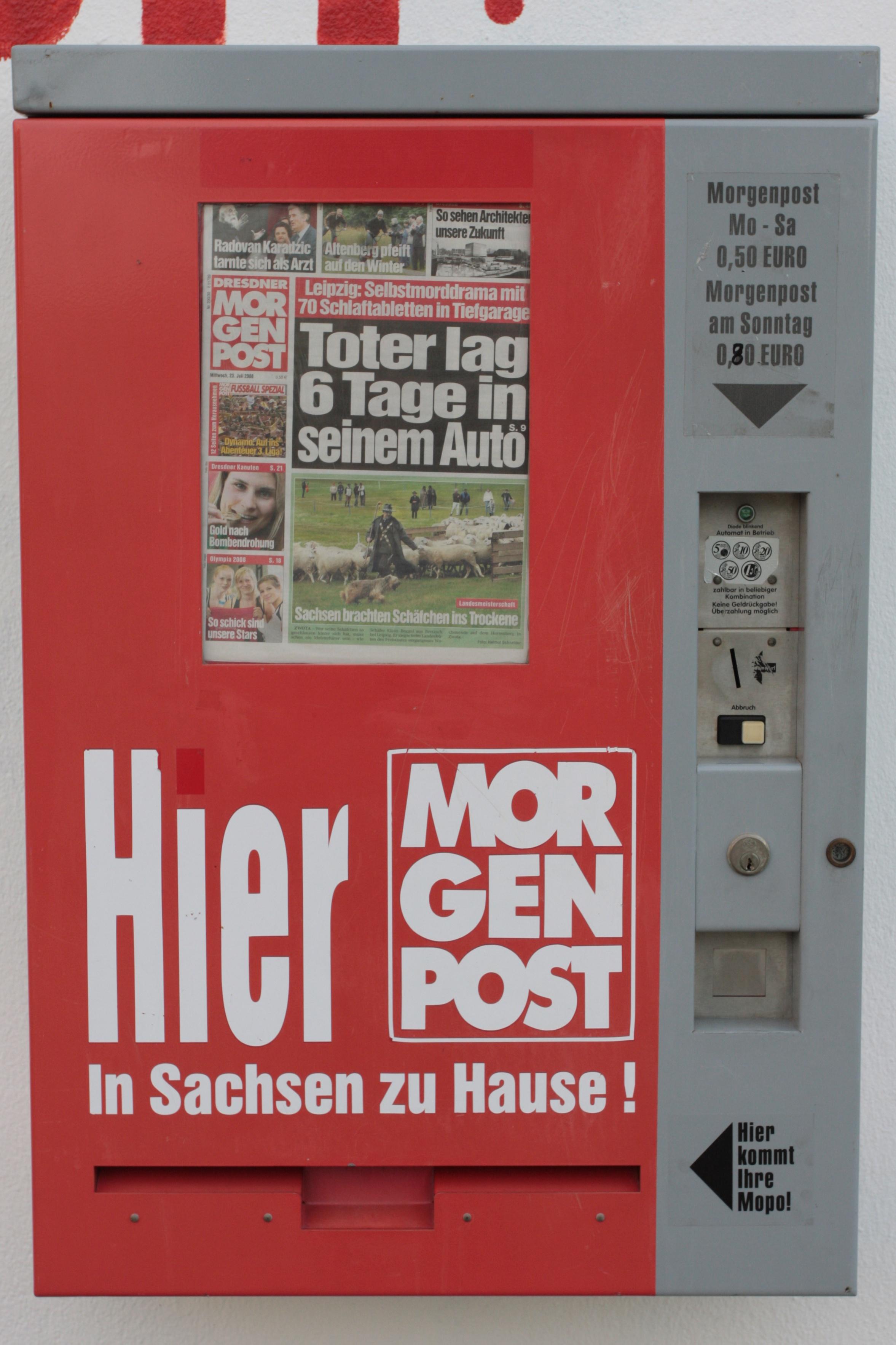 Newspaper vending machine of the Dresdner Morgenpost in Dresden